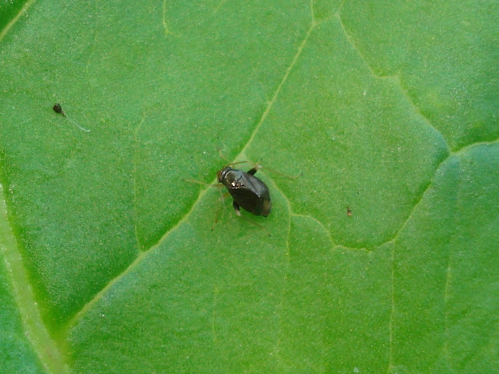 Halticus luteicollis